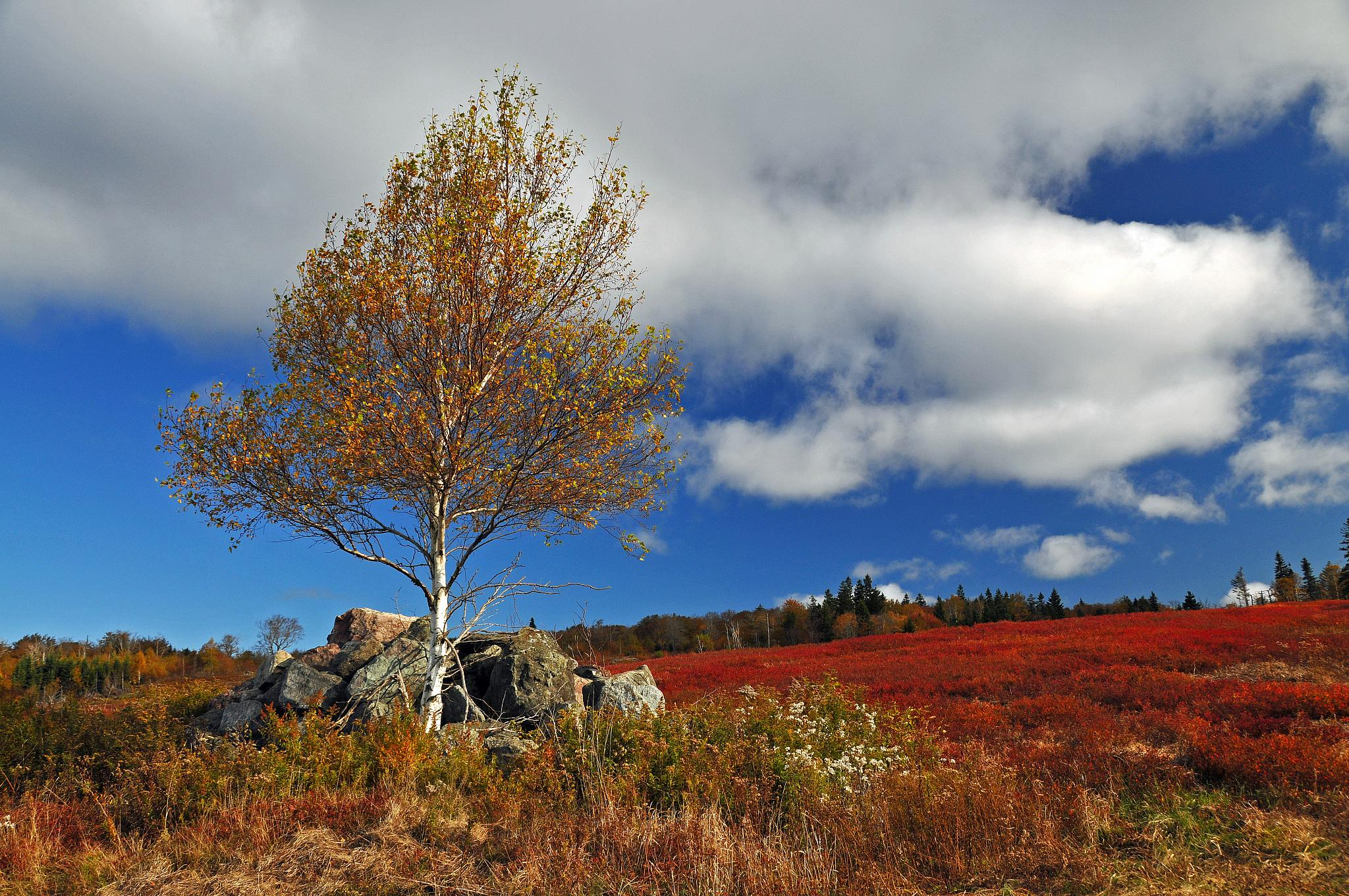 This is from the blueberry fields at Parrsboro, Nova Scotia, Canada